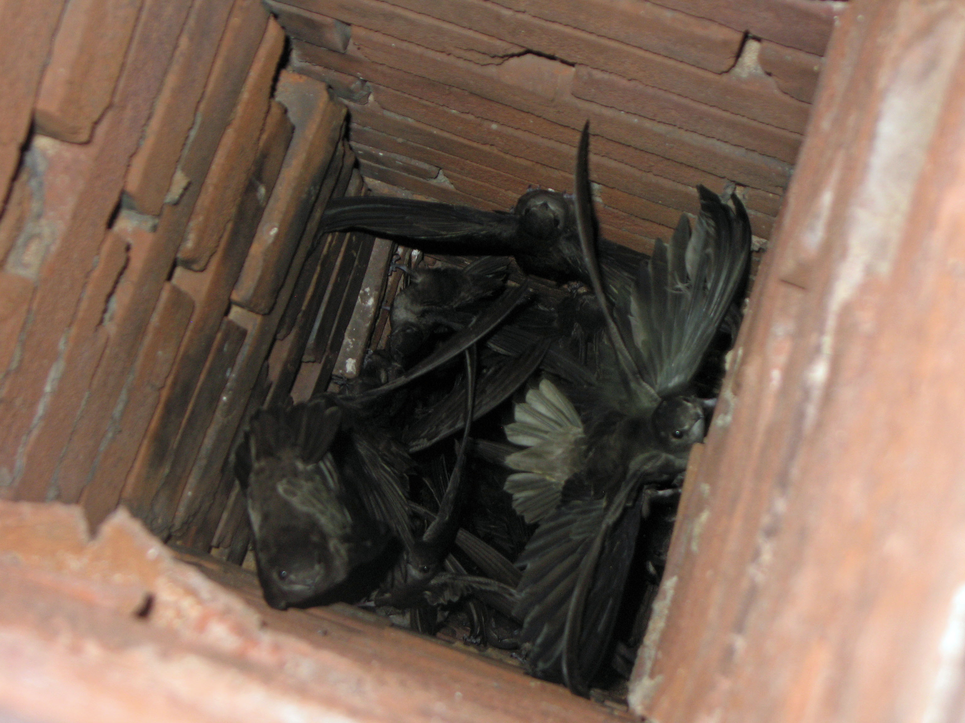 Several Chimney Swifts inside a chimney in Perryville, Missouri, USA.